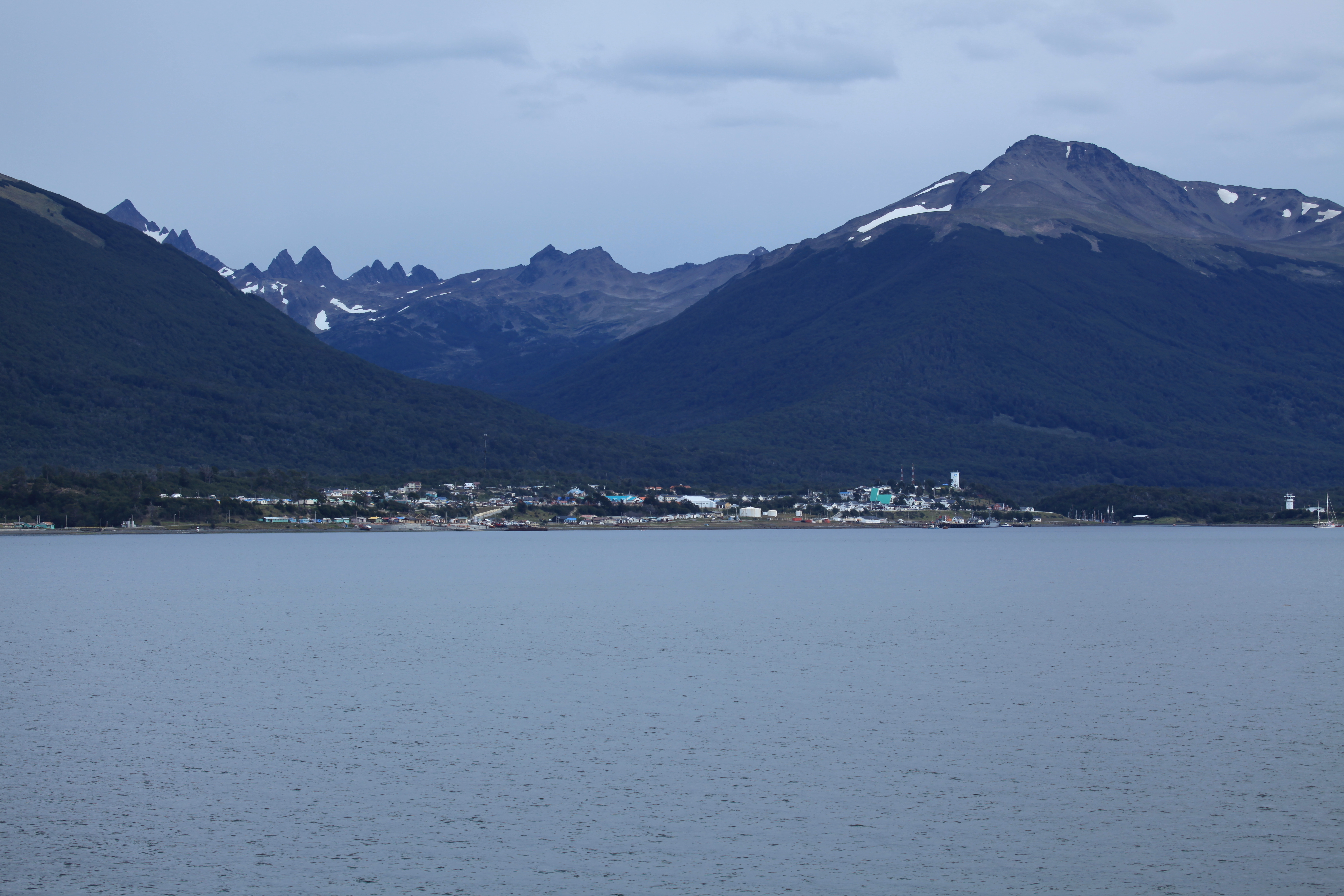 The world's southernmost town.